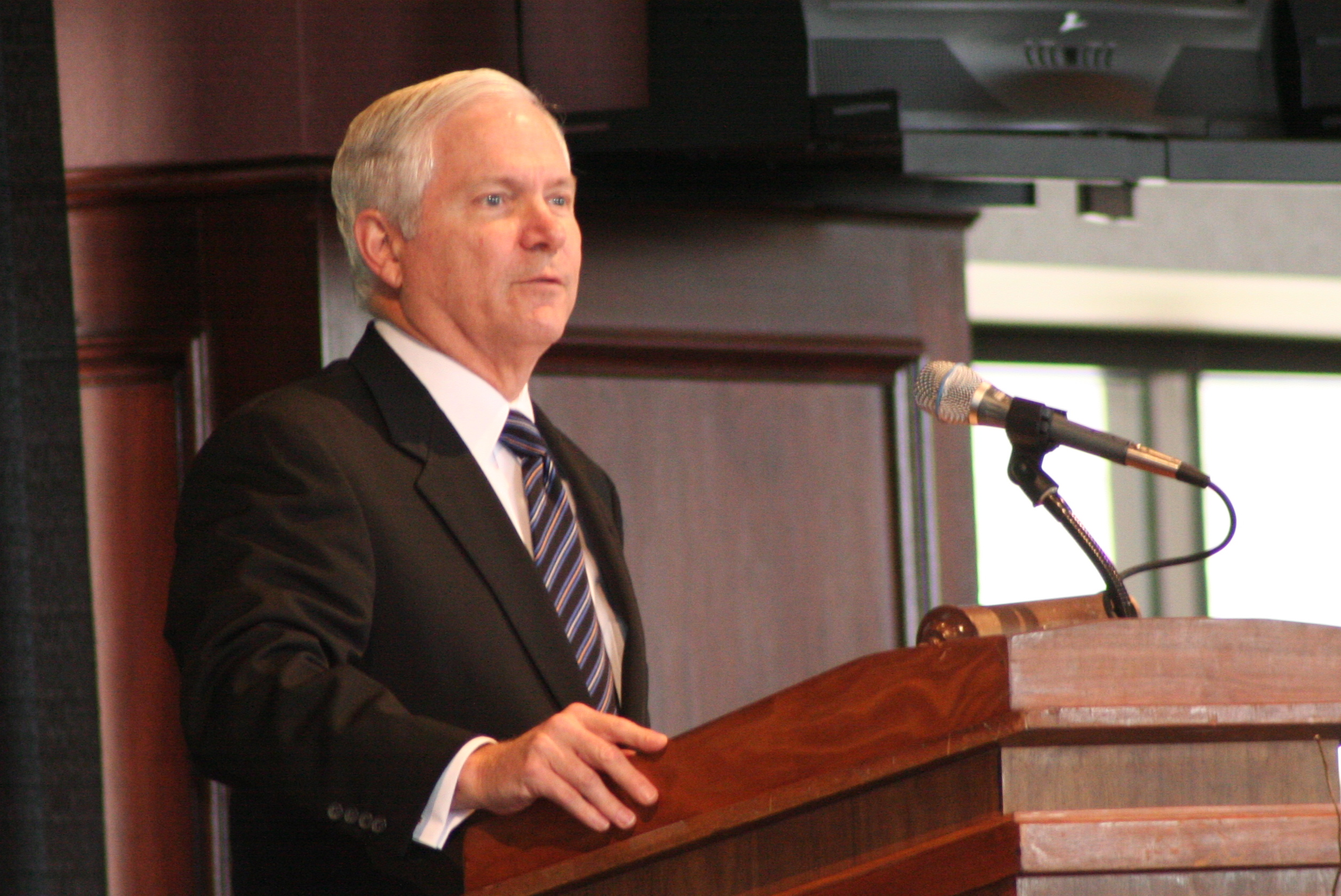 Robert Gates, as President of Texas A&M, presents the CNVE Aggie 100 awards at the Mays Business School